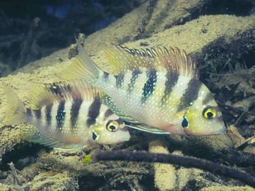 Thorichthys helleri